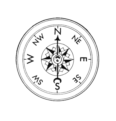 line art drawing of compass.